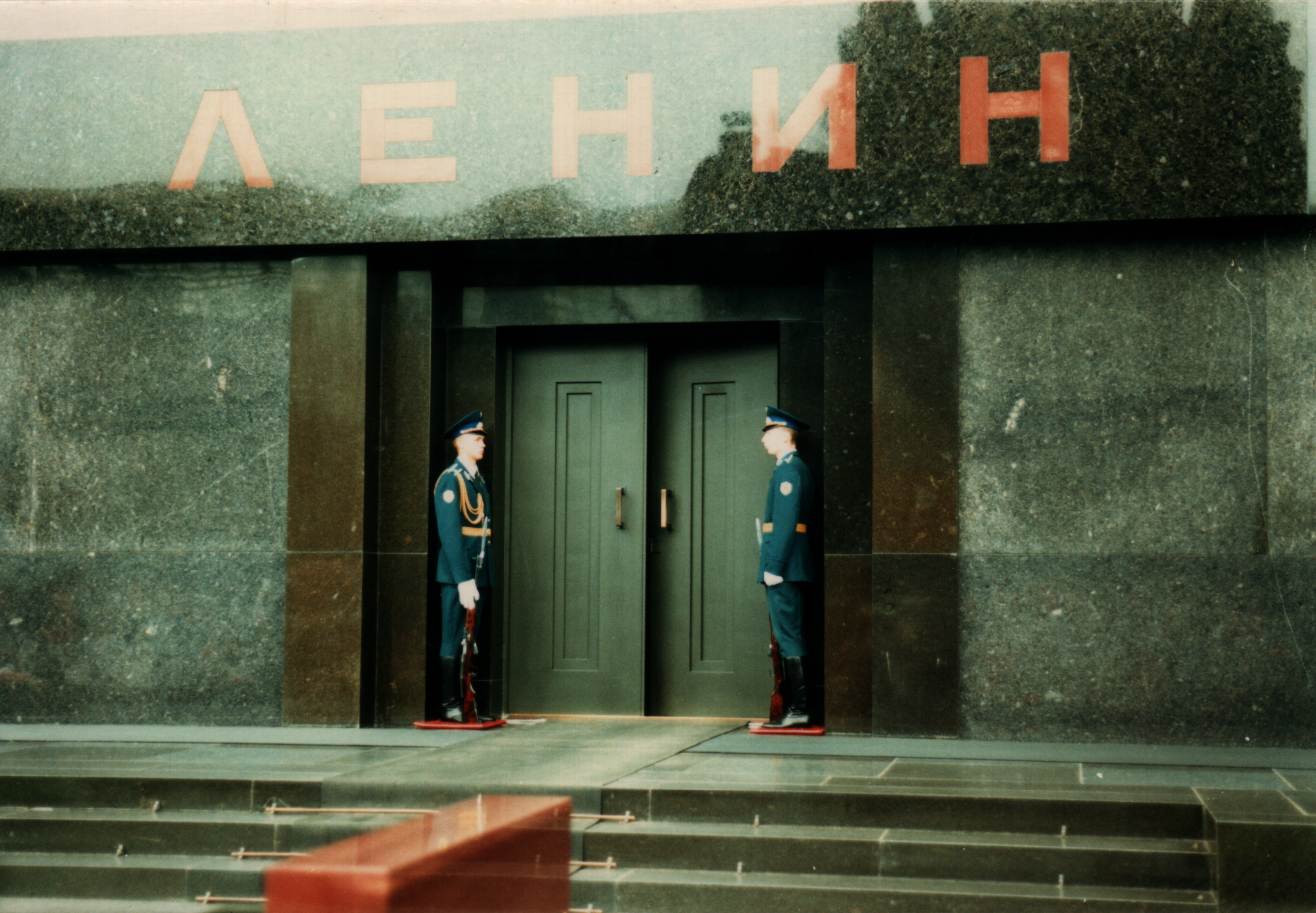 The entrance to the Lenin Mausoleum with honor guard mid July 1988